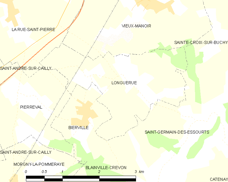 Map of French municipality Longuerue